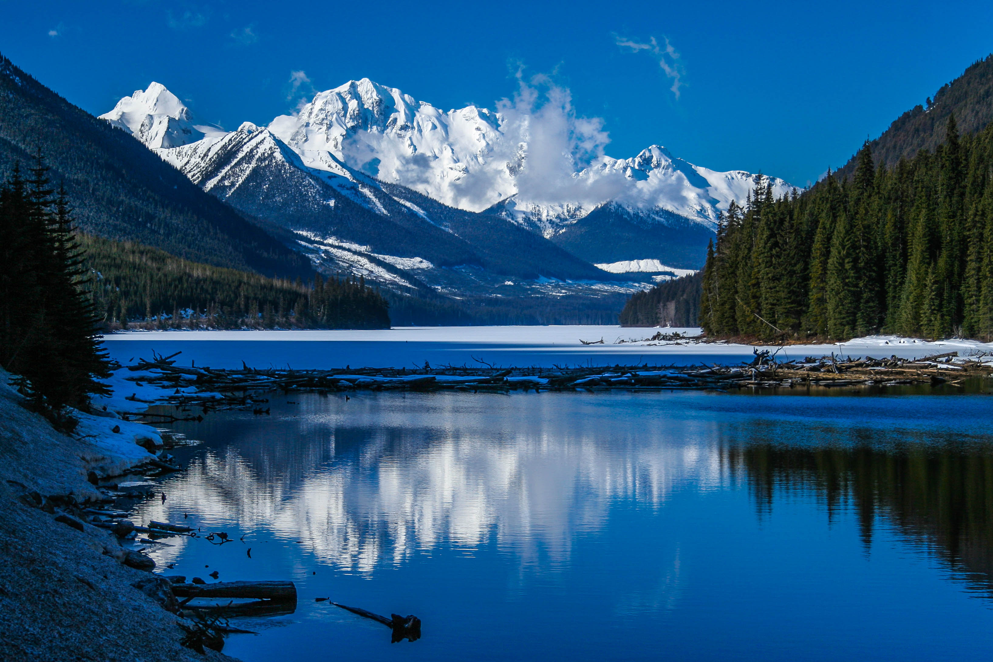 Joffre Peak (2713m) from Duffy Lake on Hwy 99